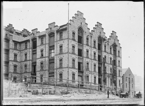 Title: Grafton Bond Store with horse-drawn wagon handling materials Dated: 04/12/1923 Digital ID: 9856_2017_2017000264 Rights: We'd love to hear from you if you use our photos/documents. Many other photos in our collection are available to view and browse on our website using Photo Investigator.